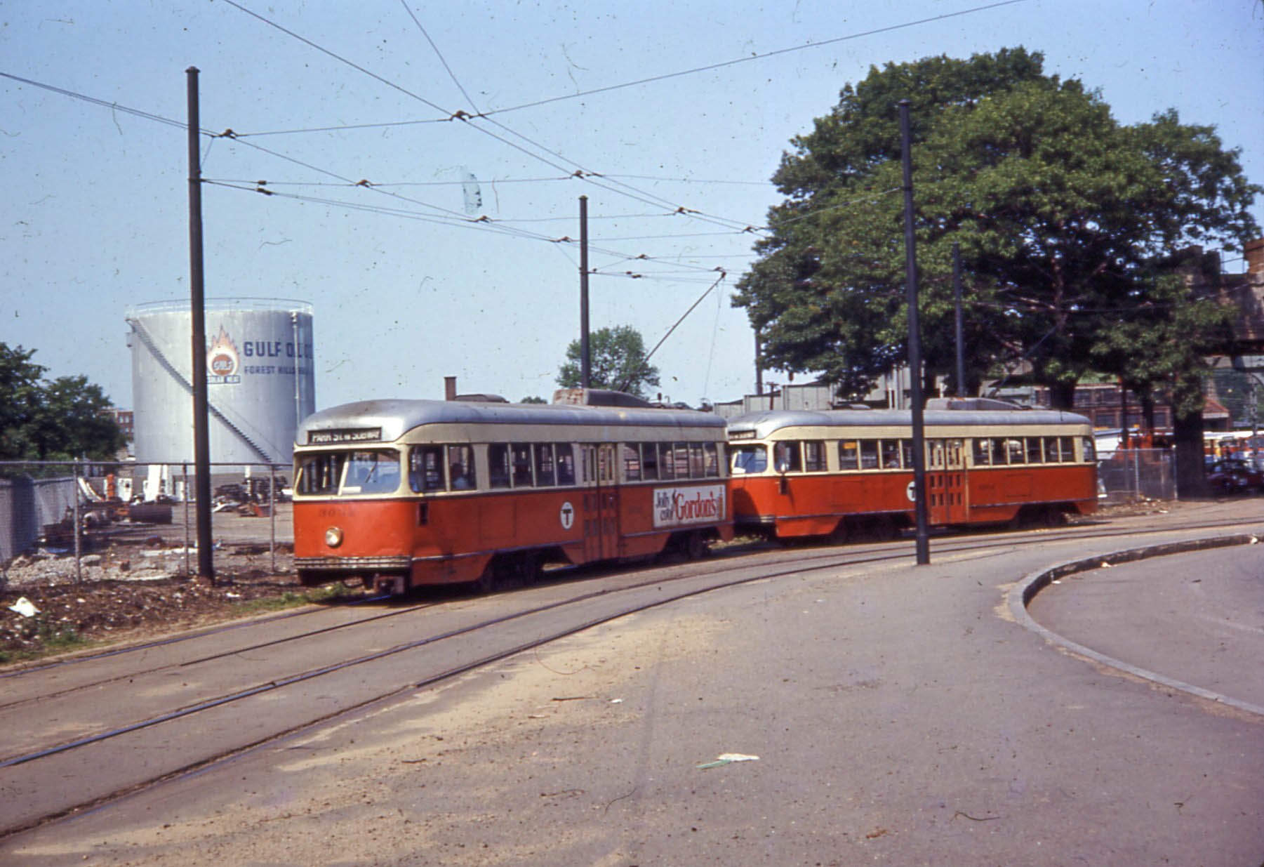 A two-car train prepares to depart Arborway for Park Street in 1967